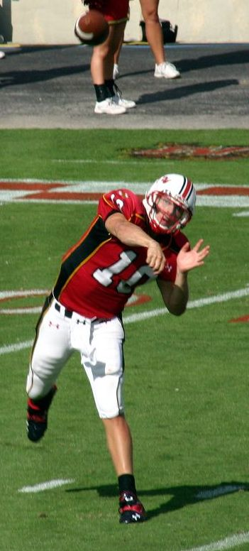 Chris Turner unleashes the dragon.